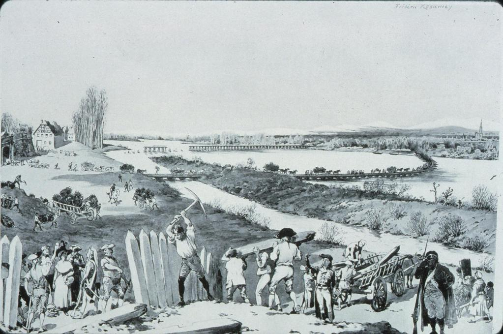 IMAGE CONSULTABLE SUR VIDEODISQUE - SALLE DU PATRIMOINE KEHL 1797 ,de F. REGAMEY, ill. ,(1905)